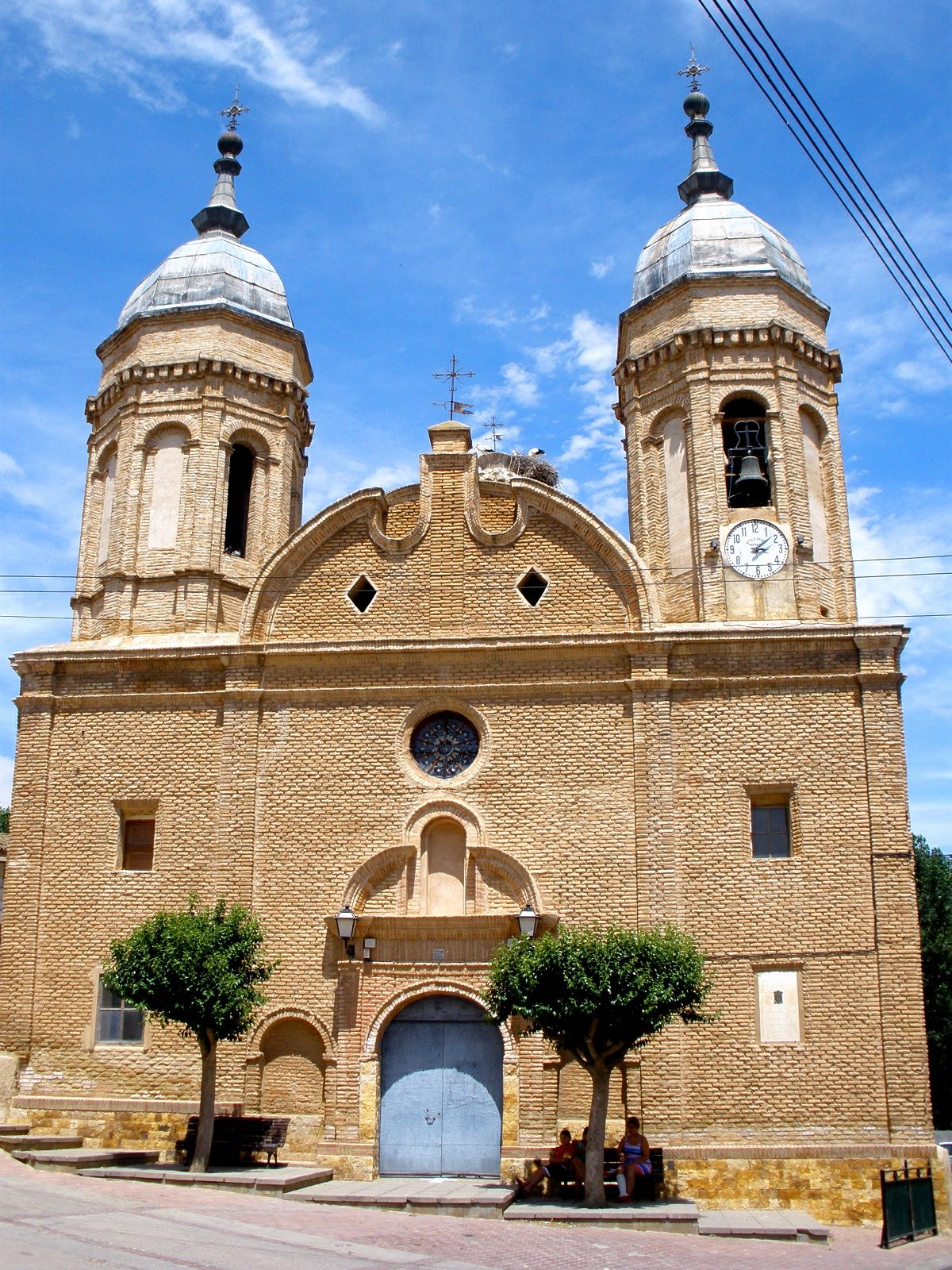 Iglesia de la Santísima Trinidad, Alcalá de Ebro (Zaragoza, España)